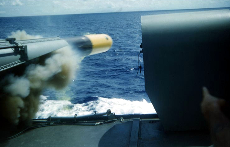 The U.S. Navy destroyer USS O'Brien firing a Mark 15 torpedo during an exercise, circa 1952-1954. Note the torpedo's yellow exercise warhead and the gray smoke from the black powder launching charge.